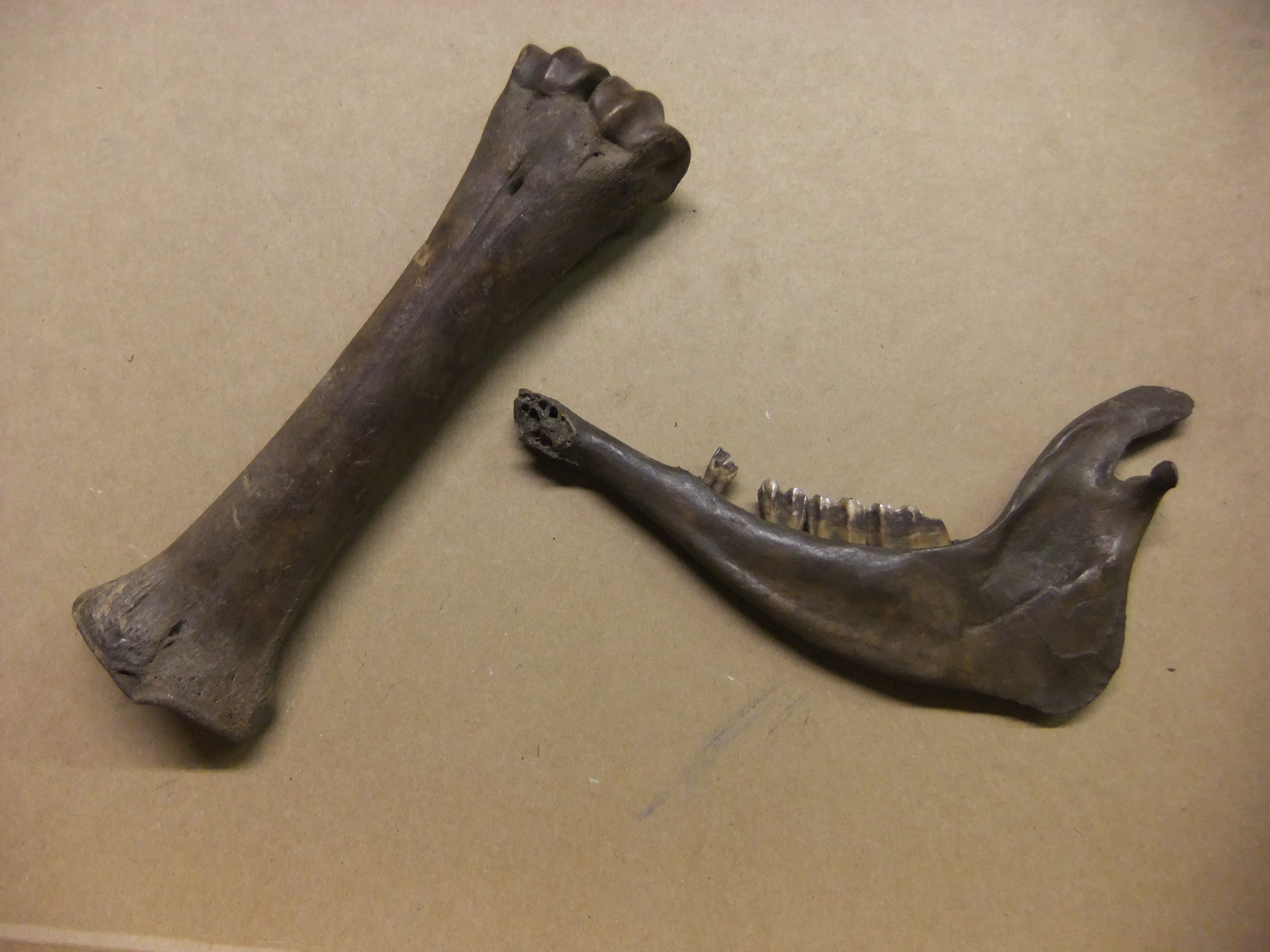 Medieval animal bones (cattle and sheep or goat) from Aboa Vetus & Ars Nova Museum in Turku, Finland.